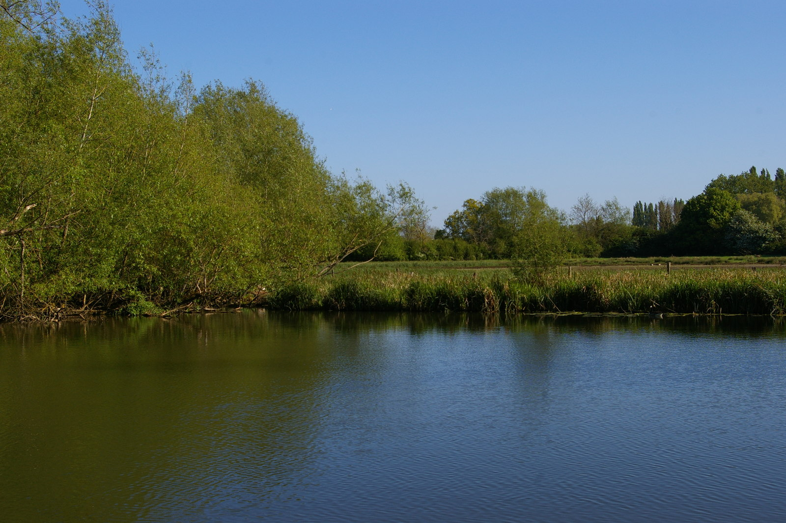 Looking across the Cherwell at Parson's Pleasure. The Cherwell here flows left to right, executing a sharp bend towards the photographer just off the right of the picture, passing over a weir as it does so. This image is the view straight ahead from the top of the rollers that enable punts to be pulled past the weir: a punt launched off the rollers then has to be turned hard left to continue up the river. Although spacious, the pool here can become crowded as punts await their turn down the rollers, and is also deep, making it hard to reach the bottom.